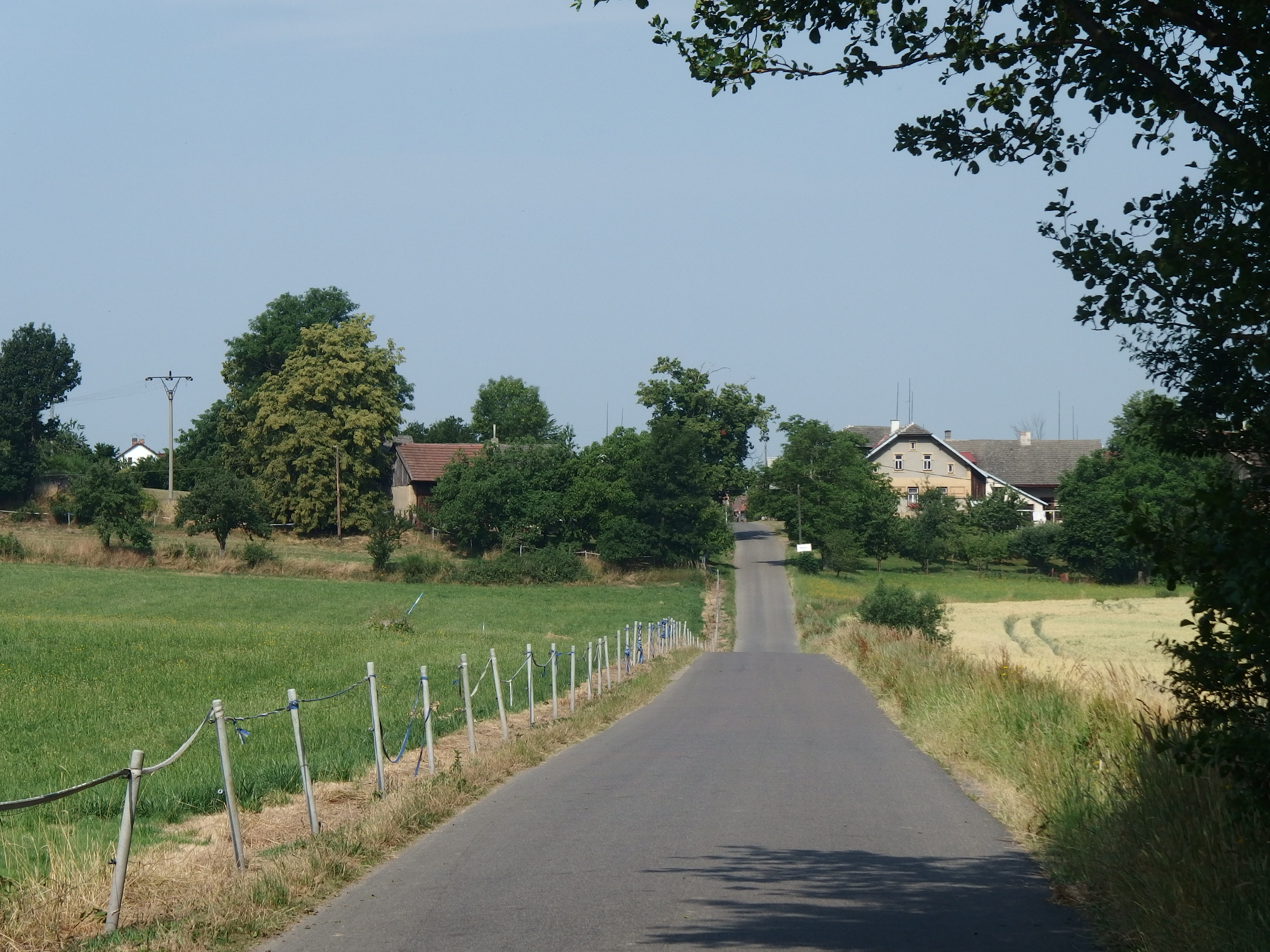 Skuteč, Chrudim District, Czech Republic, part Hněvětice.